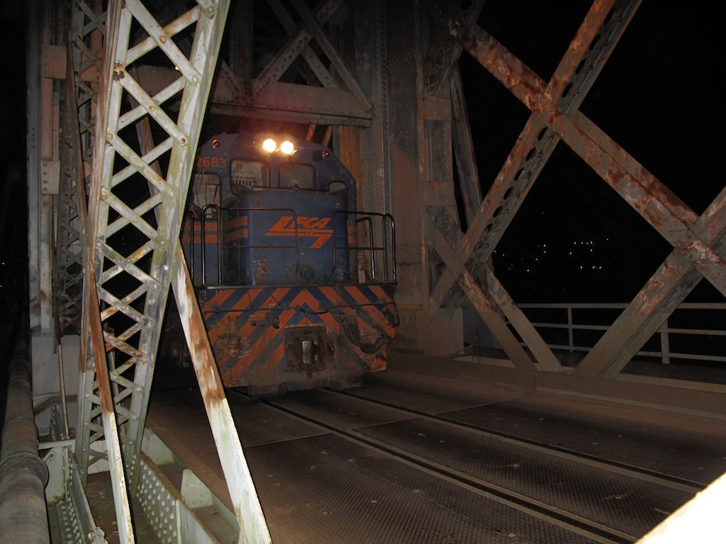 Train in Cachoeira, Bahia, Brazil